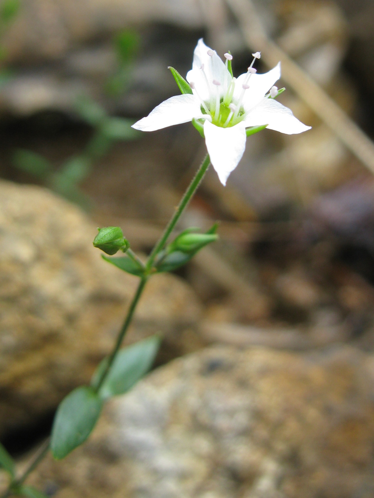 Arenaria katoana, Mount Shibutsu, Gunma pref., Japan